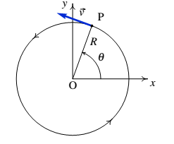 Trajetória no referencial do corpo rígido